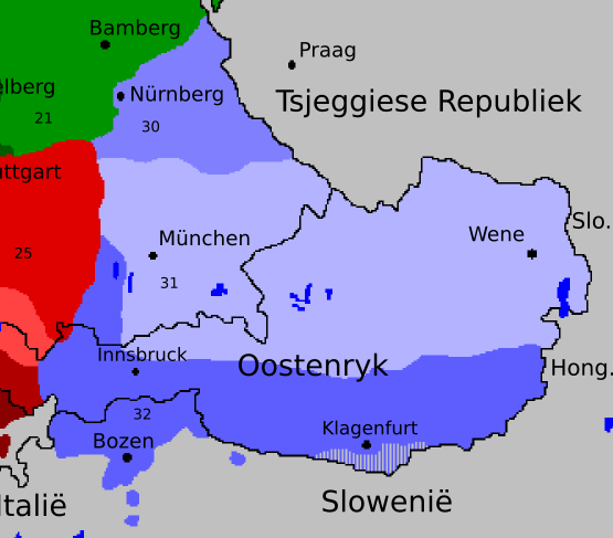 Upper German language area.